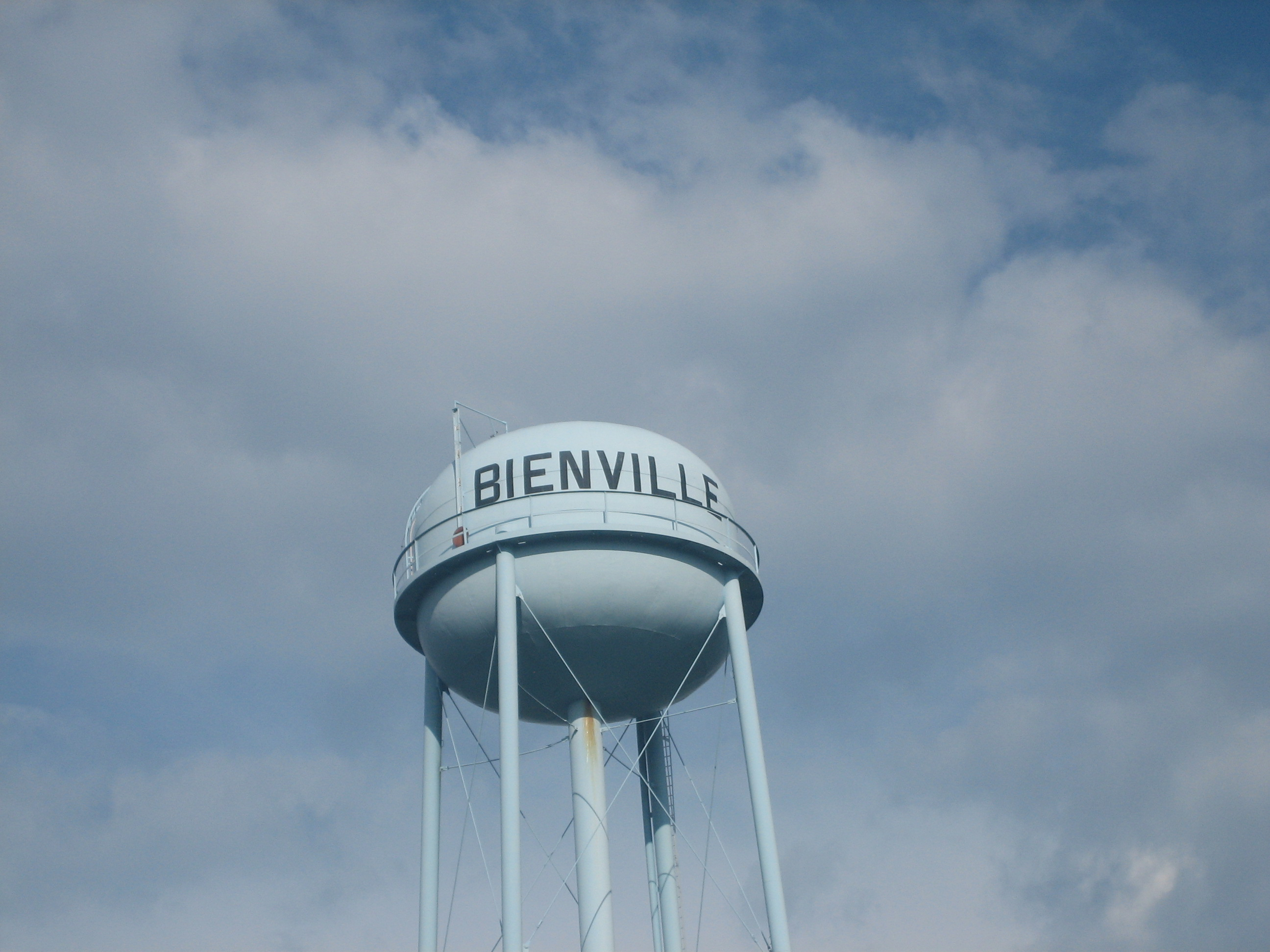 I took photo on May 25, 2009.Billy Hathorn (talk) 02:50, 30 May 2009 (UTC)